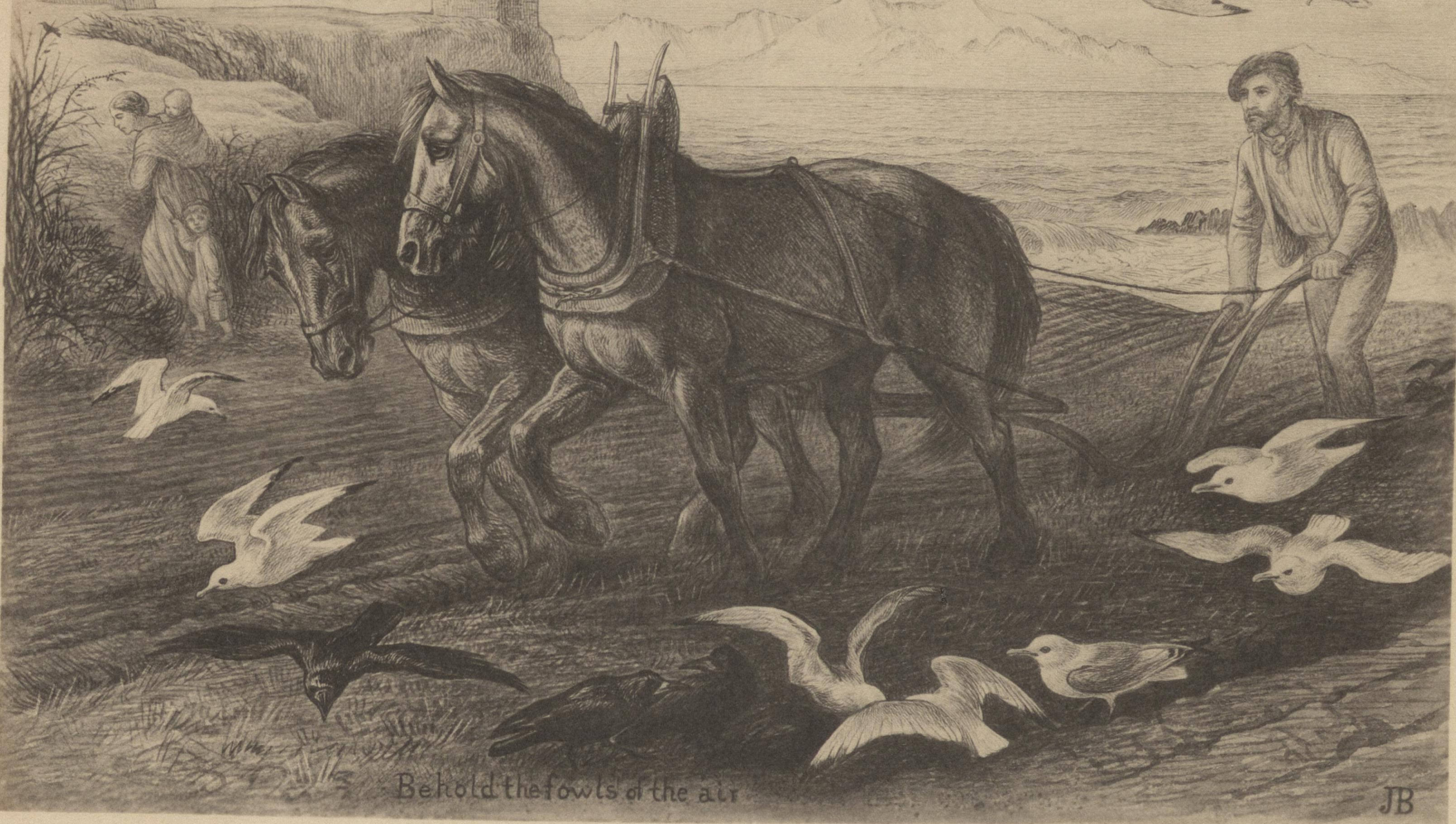 Title: Bible beasts and birds : a new edition of illustrations of scripture by an animal painter Year: 1886 (1880s) Authors: Blackburn, Jemima, 1823-1909 Subjects: Bible Publisher: London : Kegan Paul, Trench & Co. Text Appearing Before Image: ' Text Appearing After Image: '